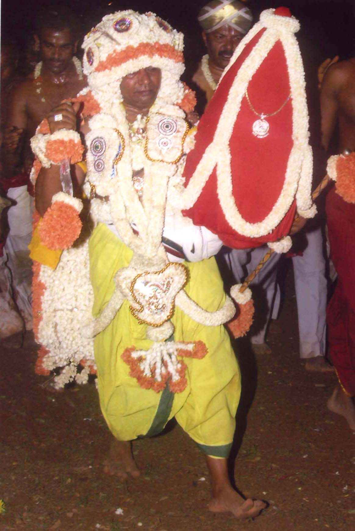 The Karaga Bearer lifting the Hasi Karaga along with the sacred staff in the left hand and holds the silver dagger in the right hand.